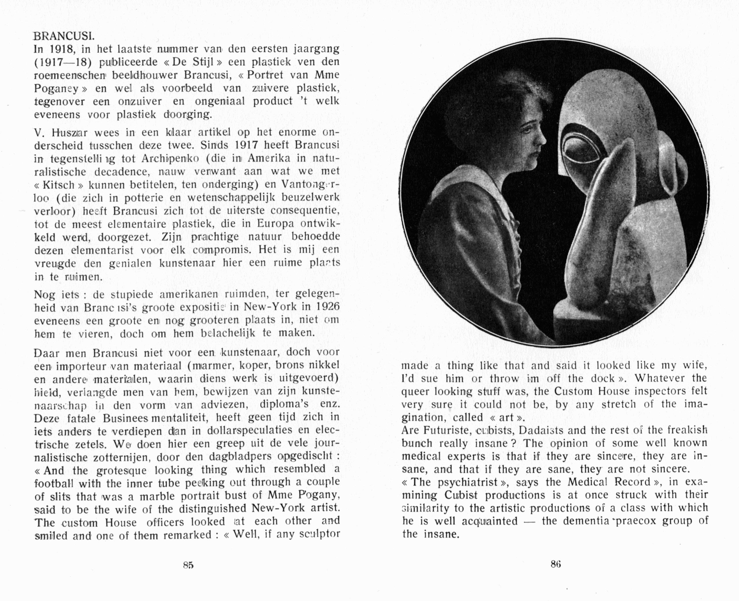 Brancusi.